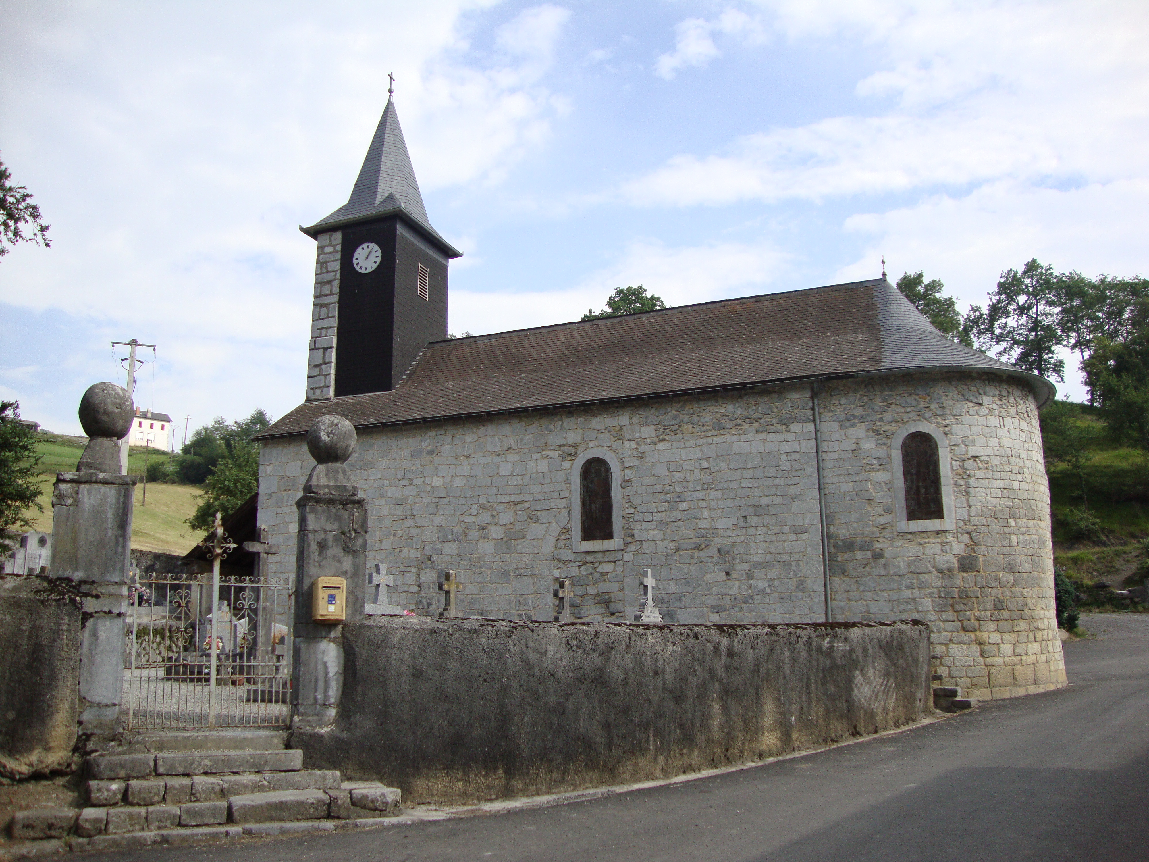 Camou (Camou-Cihigue, Pyr-Atl, Fr) église